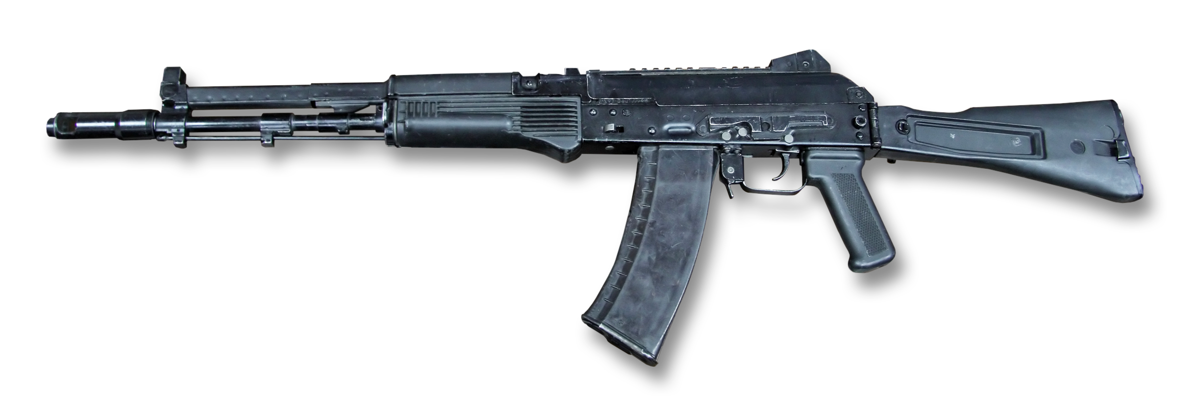 AK-107 with balanced operating system - TSNIITOCHMASH